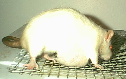 Self-made photo taken sometime in the spring of 2004 of Chelsea, a seal point pet rat with a severe mammary cyst. I took her later that day to have her put down, but the vet refused to do so as it was likely non-cancerous and she was not in any real pain. She died a couple of months later. Her two siblings also developed similar cysts, too, over the next few months.